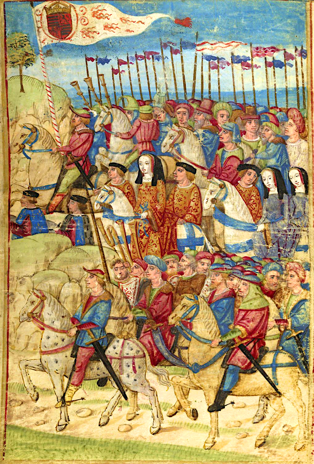 Anne de Foix, Queen of Hungary and Bohemia, with her entourage on horseback. British Library, Stowe 584 f. 71v